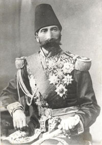 Hasan Ali Garrusi (1820–1900), a prominent Iranian diplomat and statesman of Kurdish origin.